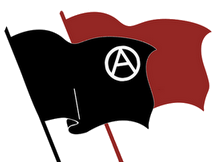 libertarian socialism, anarcho-syndicalism